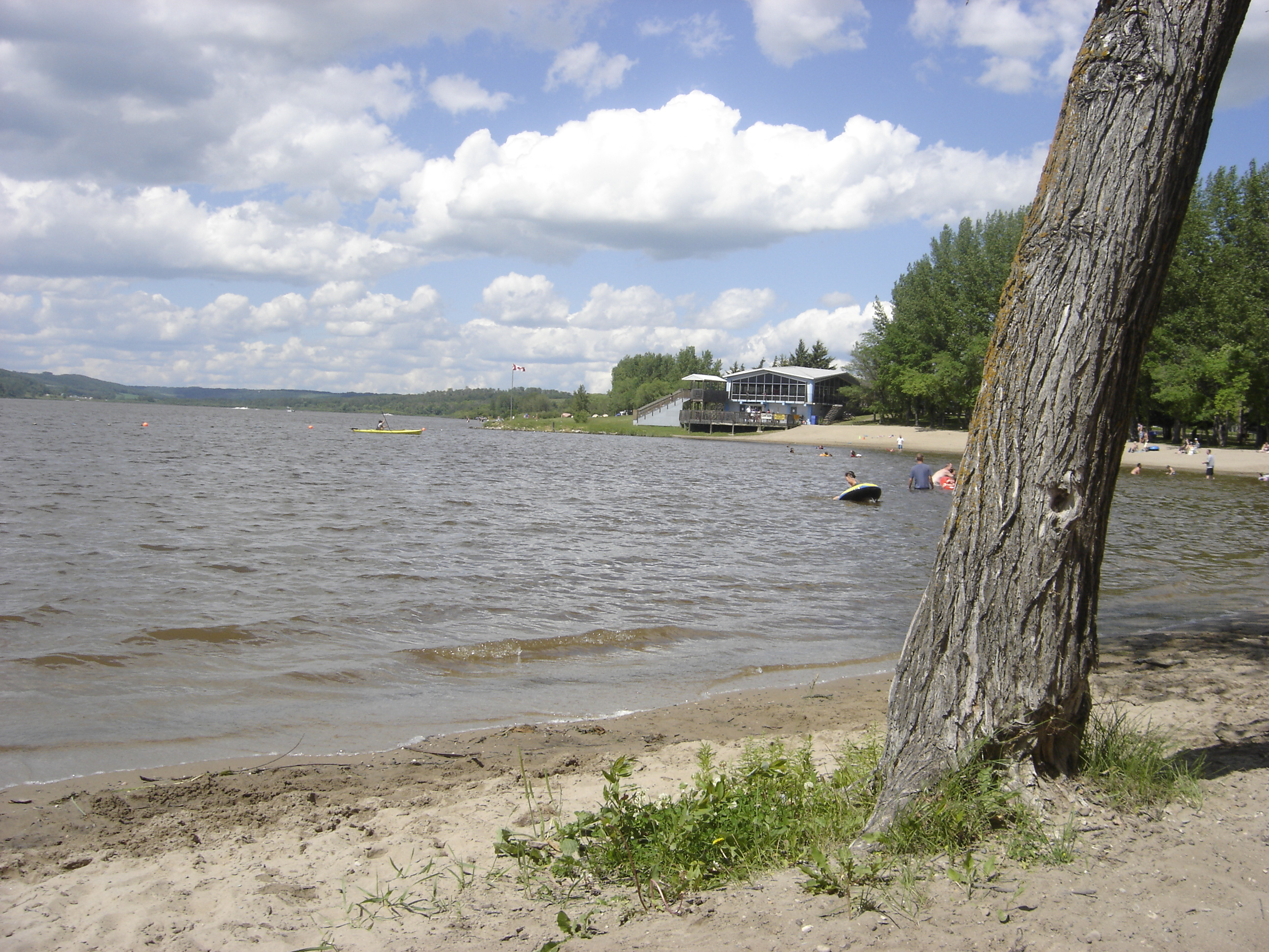 Minnedosa Beach in Minnedosa, Manitoba.